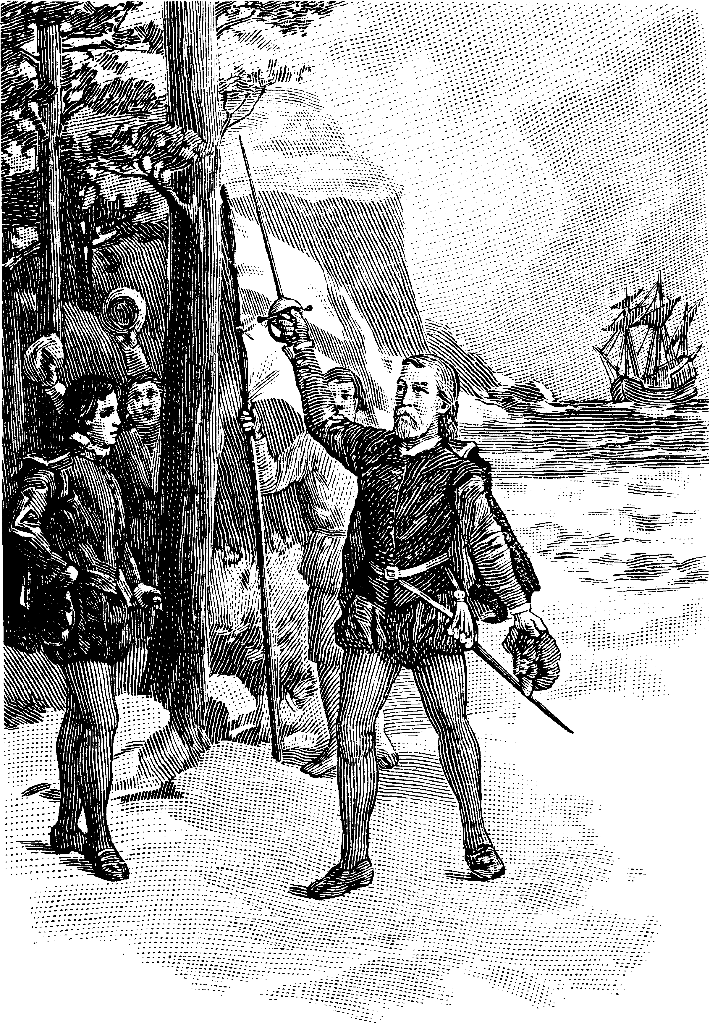 Cabot taking Possession for England.